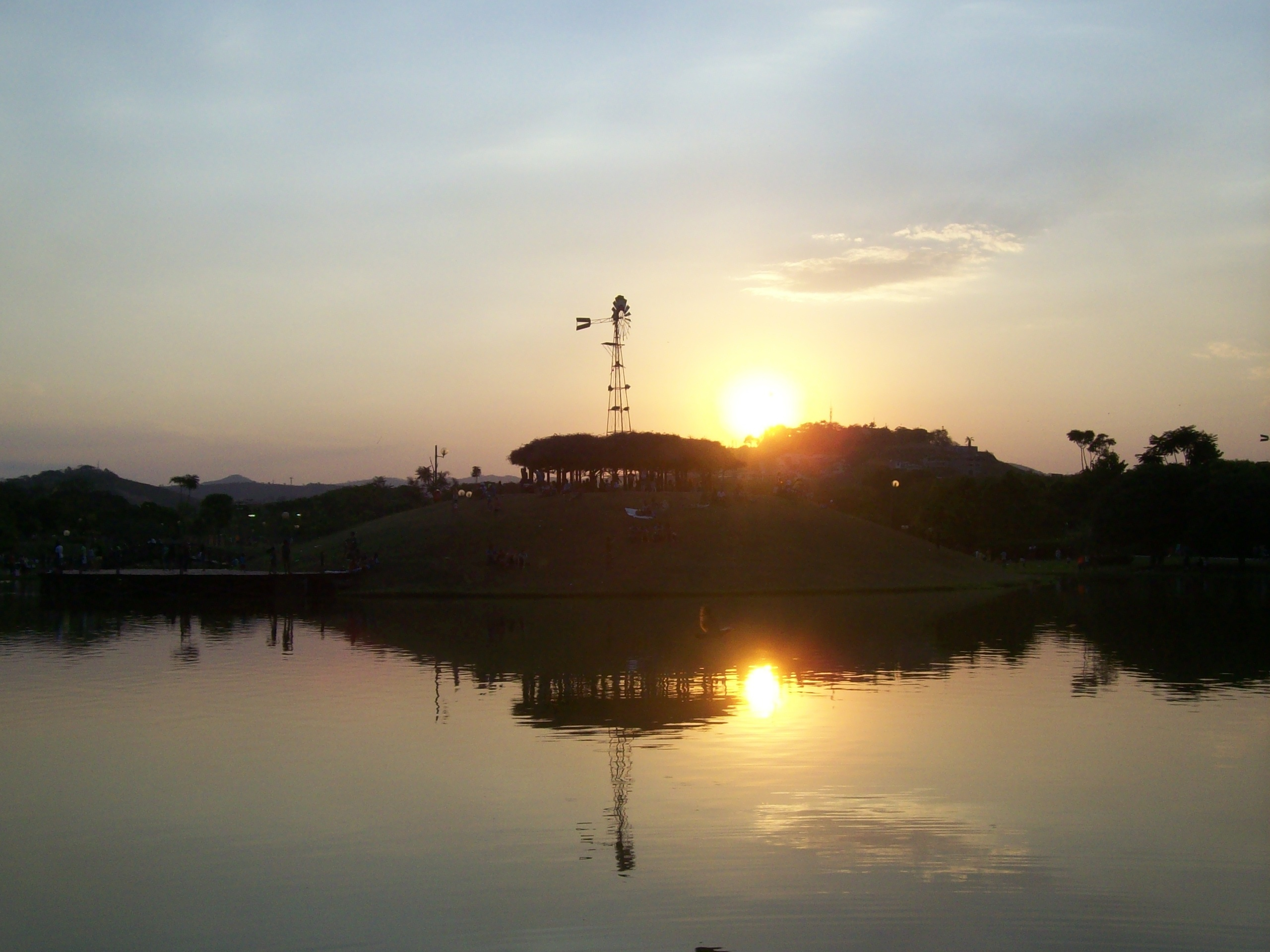 Sunset in the Ipanema park, in Ipatinga, Minas Gerais, Brazil.